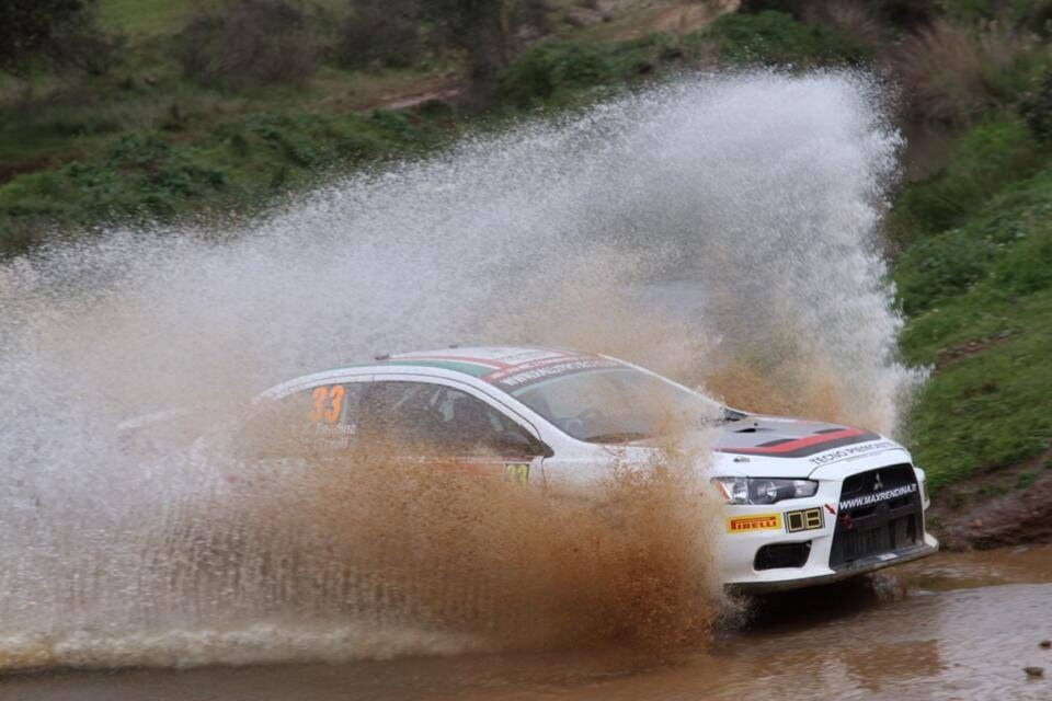 Argentina wrc2